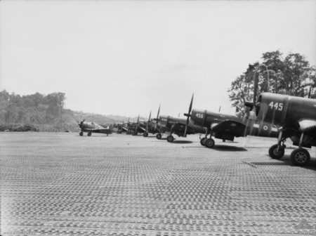 An Australian built CAC Boomerang aircraft of No. 5 (Army Co-Operation) squadron RAAF on Piva airfield taxies past Royal New Zealand Air Force Vought F4U-1 Corsair aircraft prior to acting as pathfinder for a strike against Japanese on Bougainville Island, Cape Torokina, Bougainville island, Solomon islands, 15 January 1945.